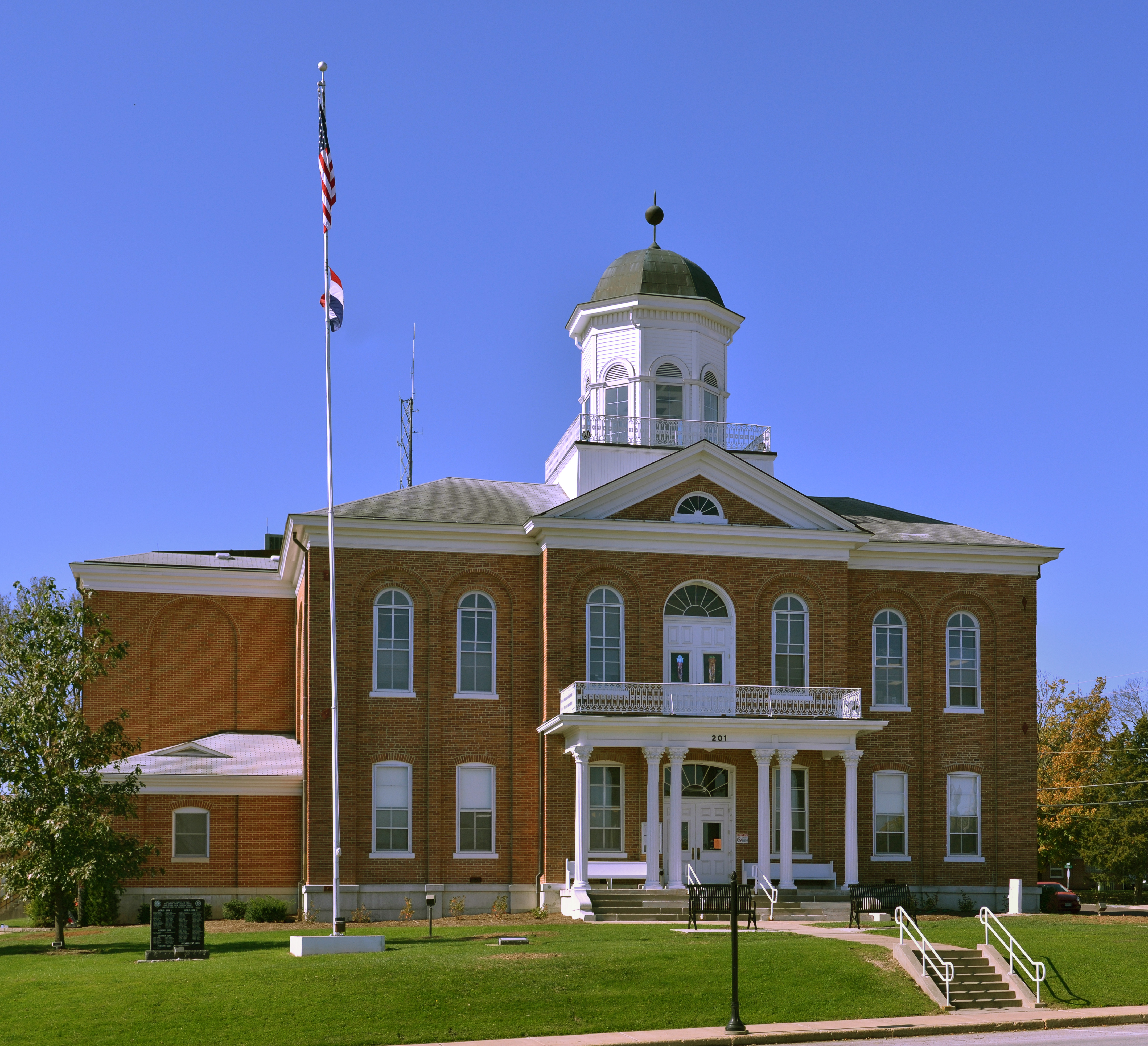 Lincoln County, Missouri Courthouse, located at 201 Main Street, was constructed in 1869-1870. The building was designed by Gustave Bachmann, and the contractor was Edwards & Griffith.